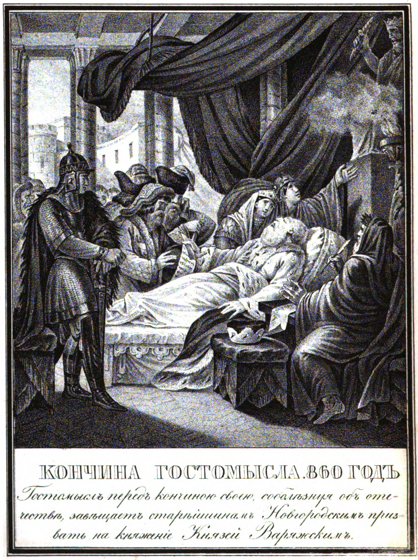 Illustration plate from the book Живописный Карамзин (1836), depicting the history of Russia.